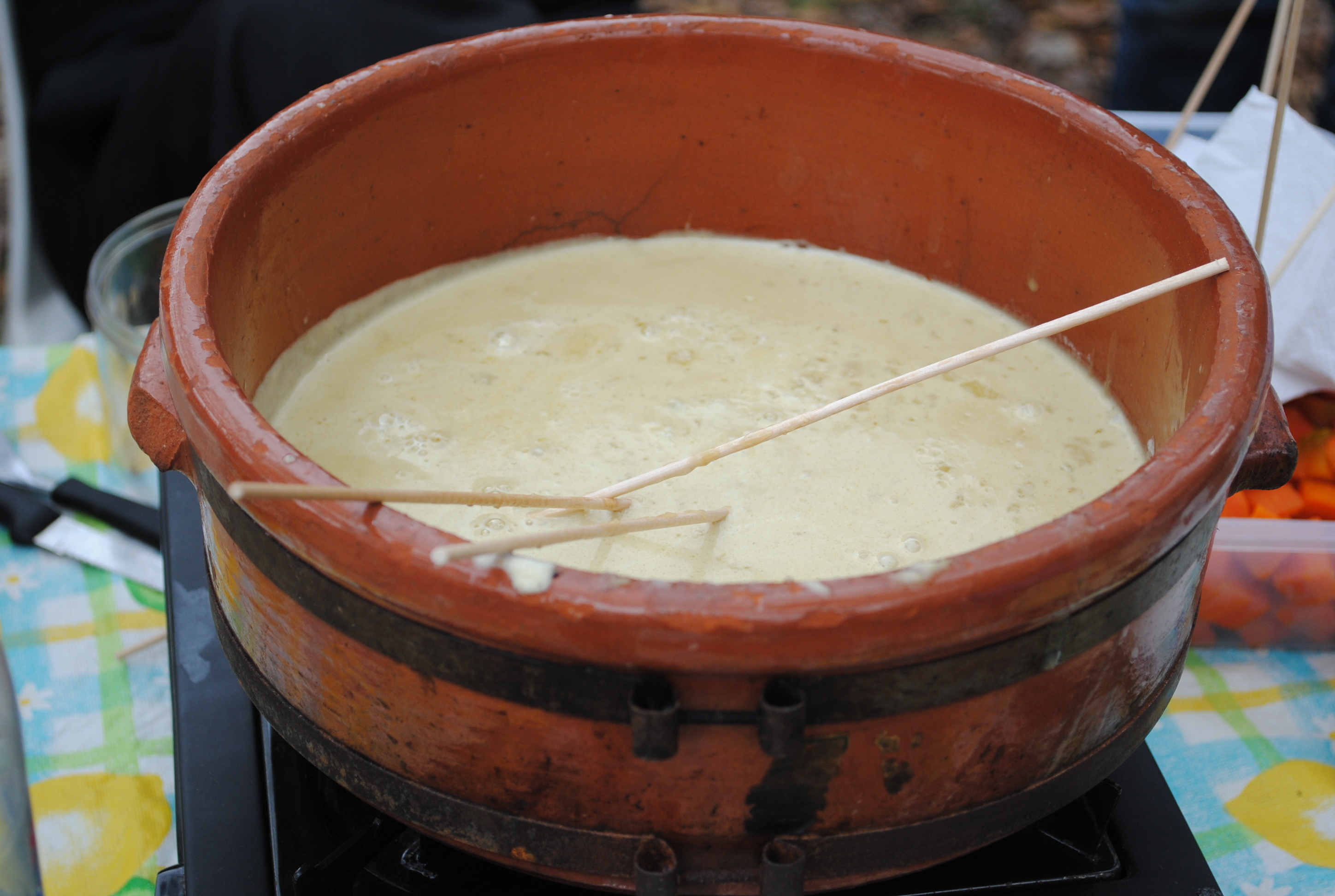 Typical Bagna cauda dish